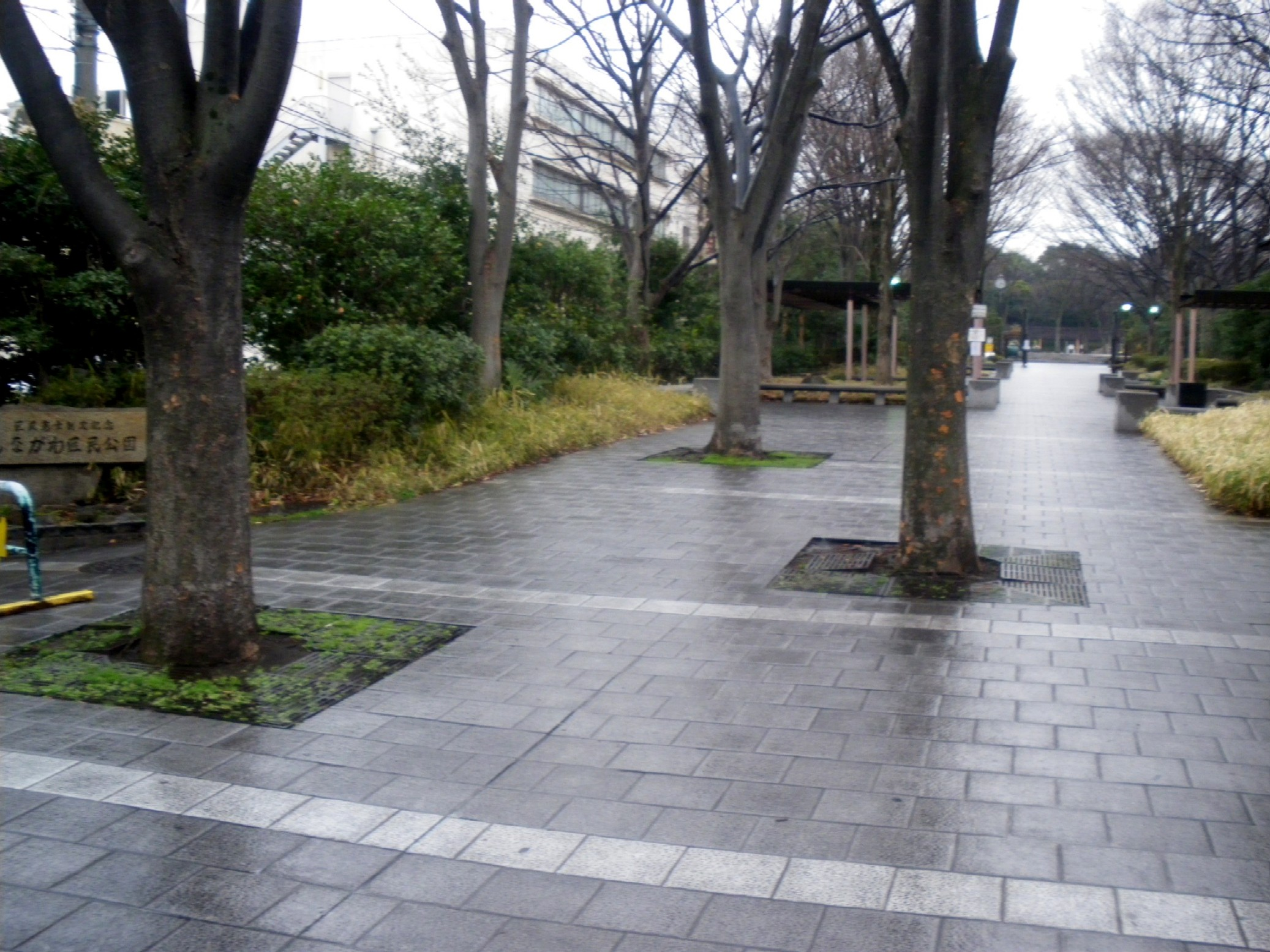 the main entrance of Shinagawa Kumin Park(Tokyo)